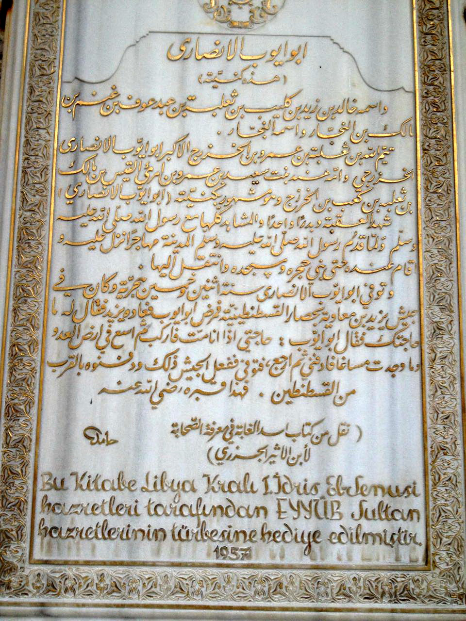 The Eyüp Sultan Mosque is situated in the Eyüp district of Istanbul, outside the city walls near the Golden Horn. The present building dates from the beginning of the 19th century. The mosque complex includes a mausoleum marking the spot where Eyüp (Job) al-Ansari, the standard-bearer and friend of the Islamic prophet Muhammad, is said to have been buried.